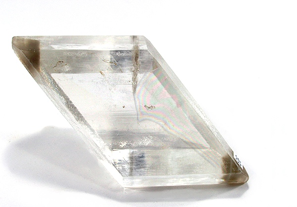 Gypsum Locality: Willow Creek, Nanton, Alberta, Canada (Locality at ) Pure crystallographic perfection! This single, complete, colorless, floater is transparent, and almost 1 inch thick. If this specimen had been available 200 years ago, Hauy would have constructed a wood model of it. 8.2 x 3.2 x 2.1 cm